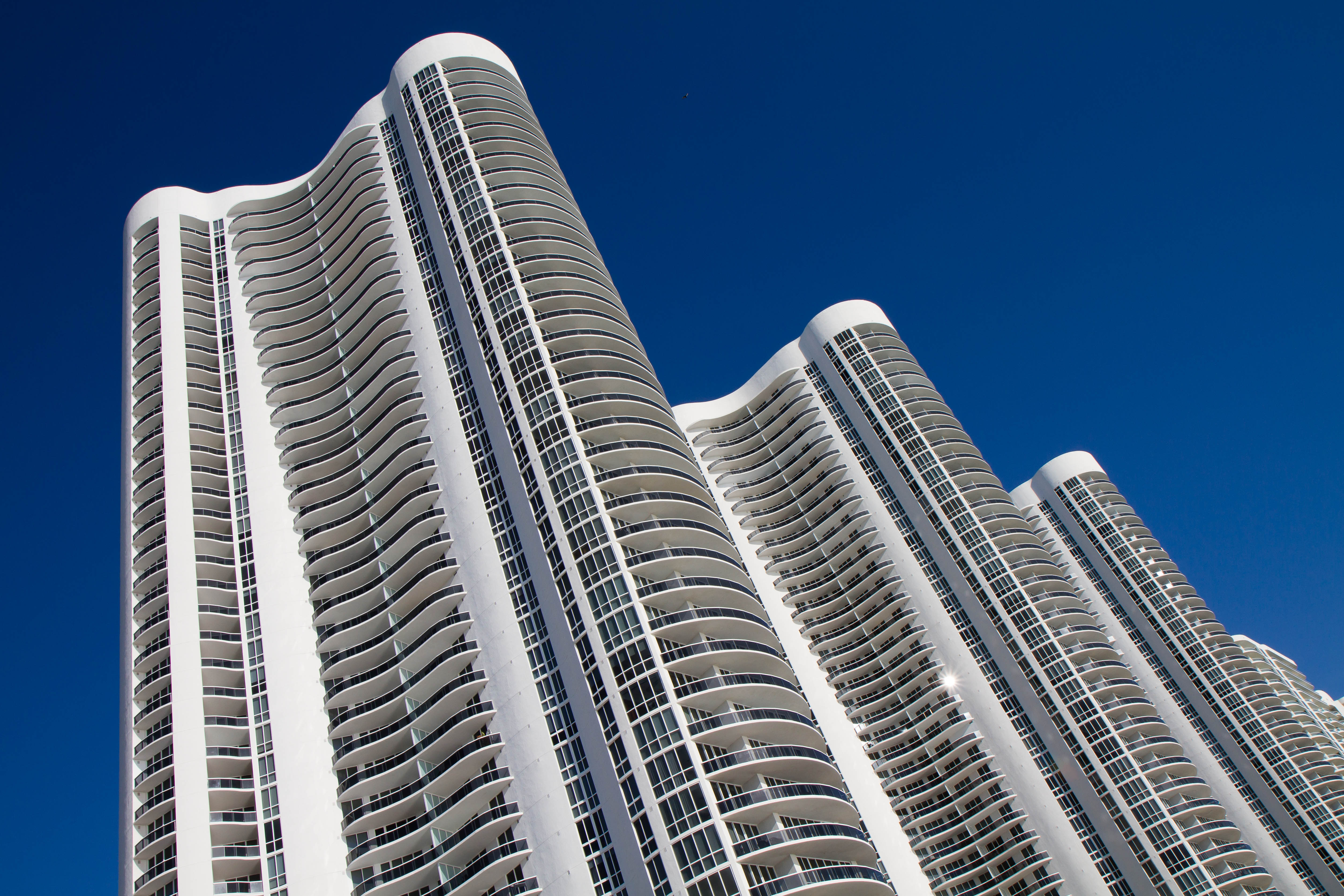 Three identical towers in Sunny Isles Beach, Florida. Viewed from the beach and the south because there are buildings beyond them and the sun is shining on the close side.